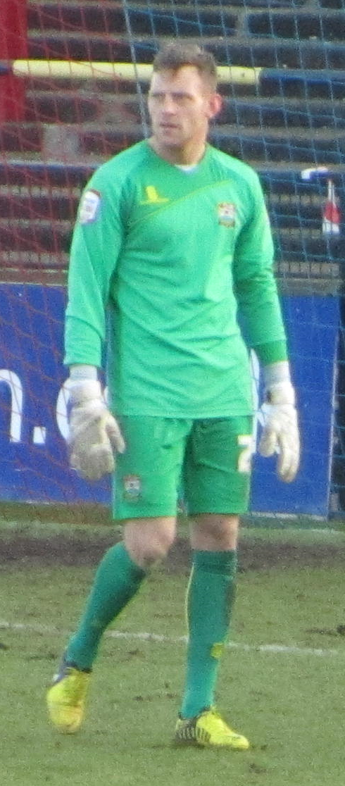 Graham Stack.